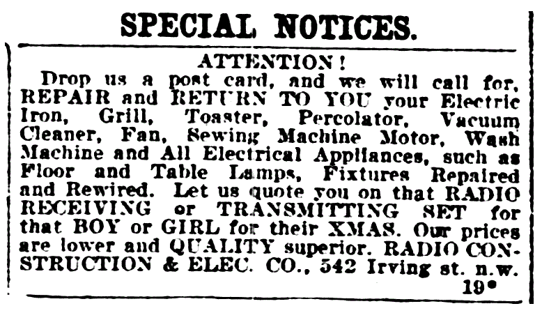 The Radio Construction & Electric Company, 542 Irving Street, N.W., was the licensee for radio station WDW (December 22, 1921-April 1922), which was one of the first broadcasting stations in the United States.